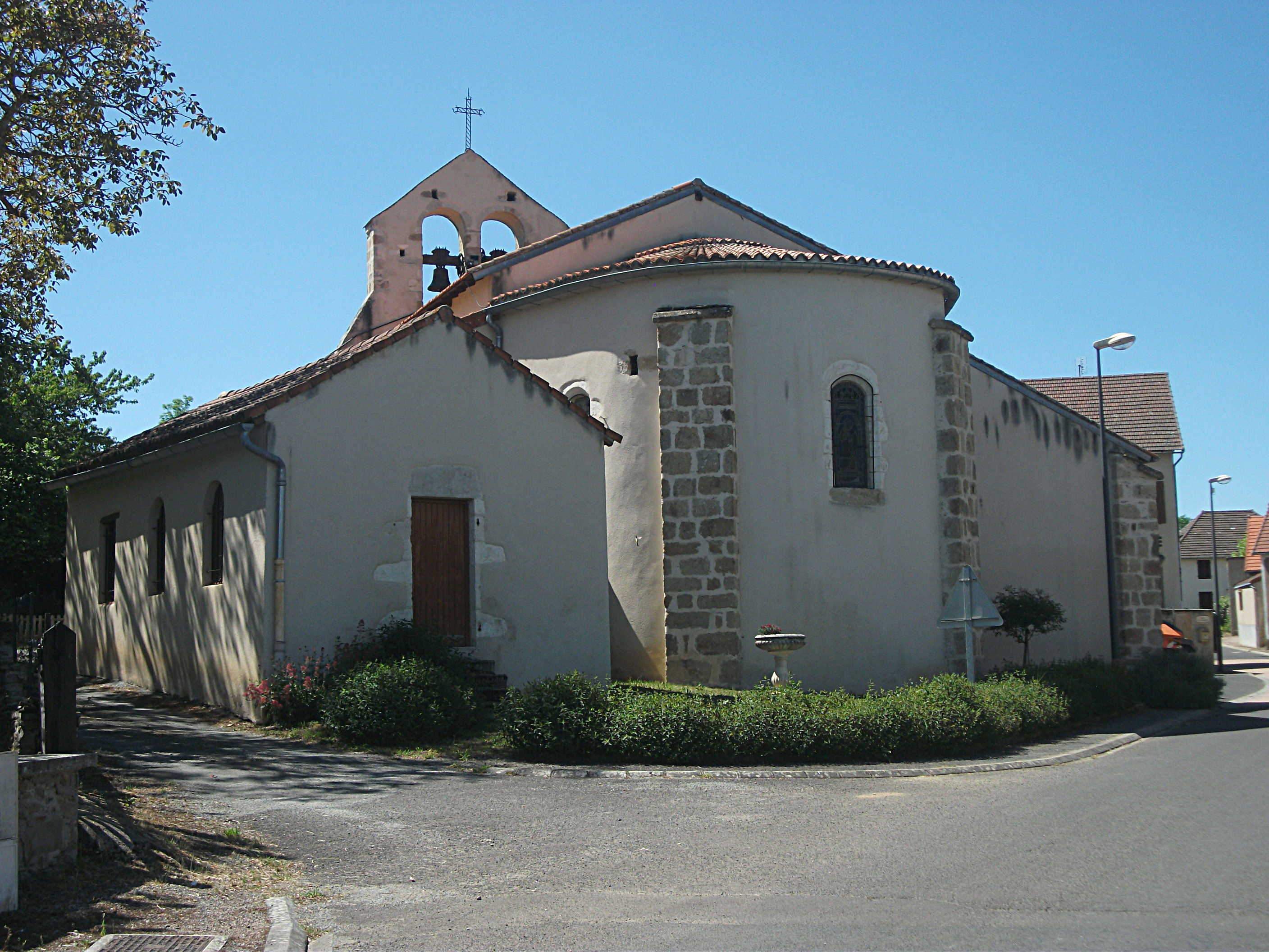 Church of Saint-Gal-sur-Sioule, Puy-de-Dôme, Auvergne-Rhône-Alpes, France. [18426]